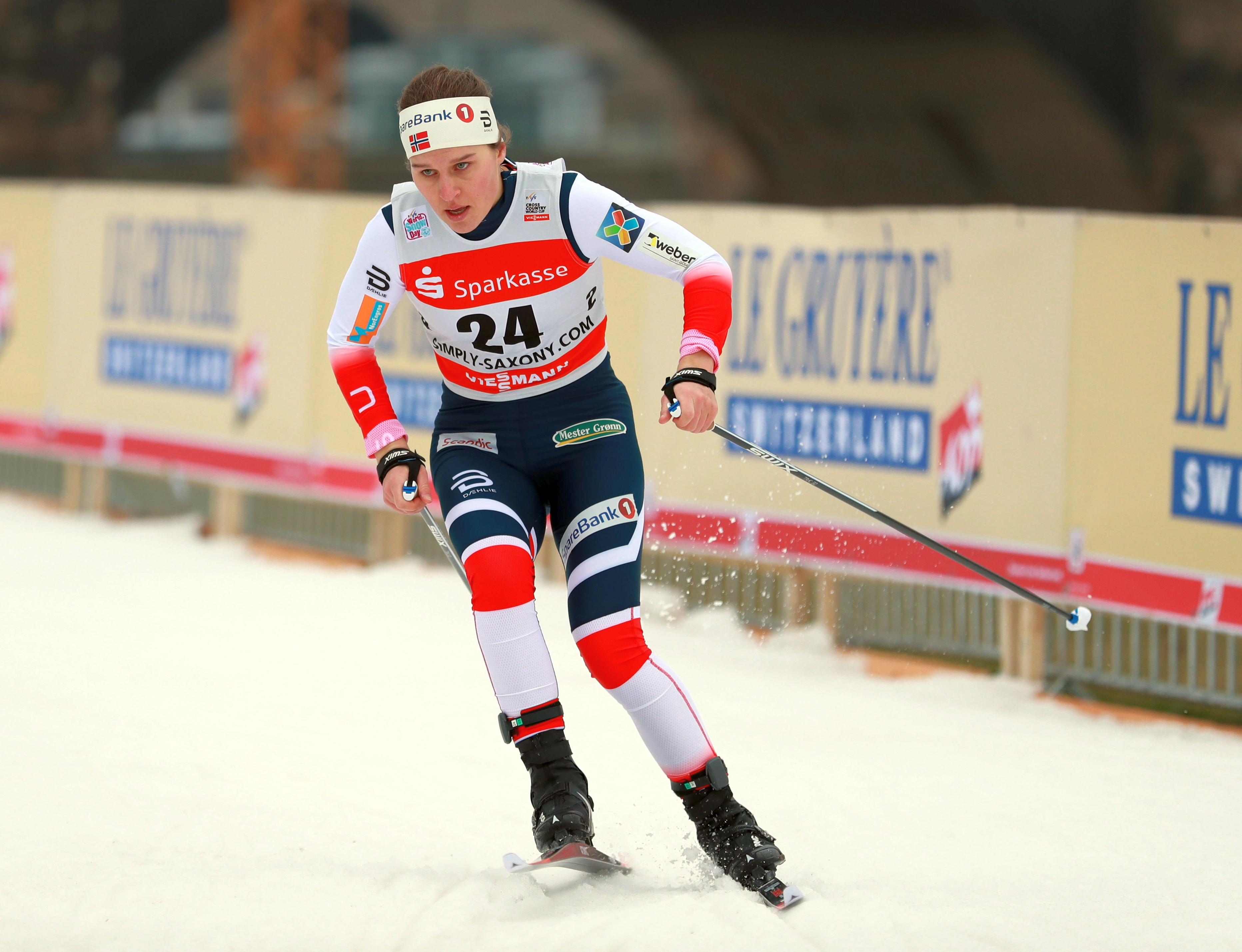 Womens Prolog at the FIS Cross-Country World Cup Dresden 2018: Lotta Udnes Weng